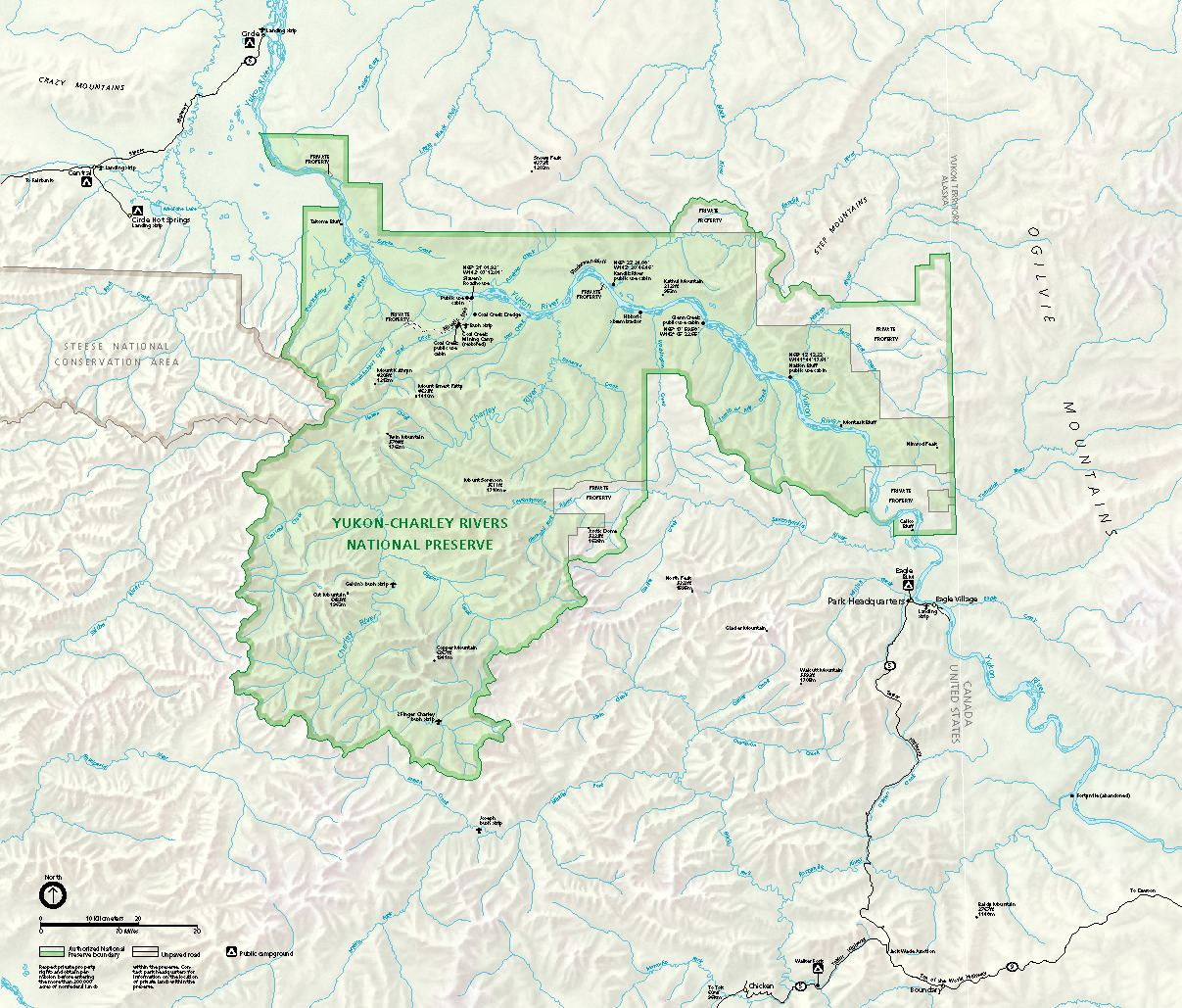 Map of the Yukon-Charley Rivers National Preserve — in the Fairbanks region, Alaska.